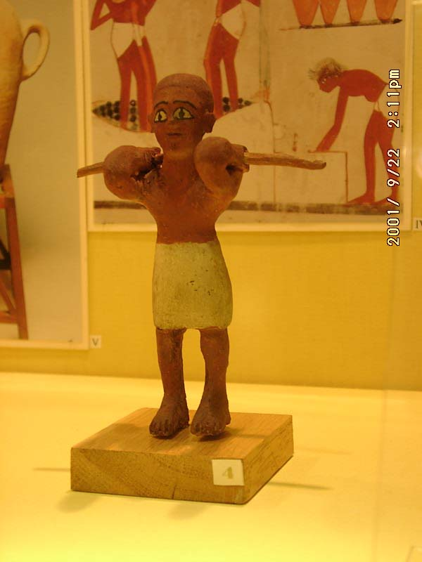 Slave statuette of an Old Kingdom tomb at Museum of Fine Arts, Budapest